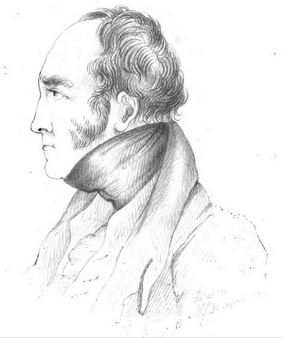 Joseph Ablett (1773-1848) of Llanbedr Hall, Llanbedr, Denbighshire, Wales. Philanthropist and High Sheriff of that county in 1809.